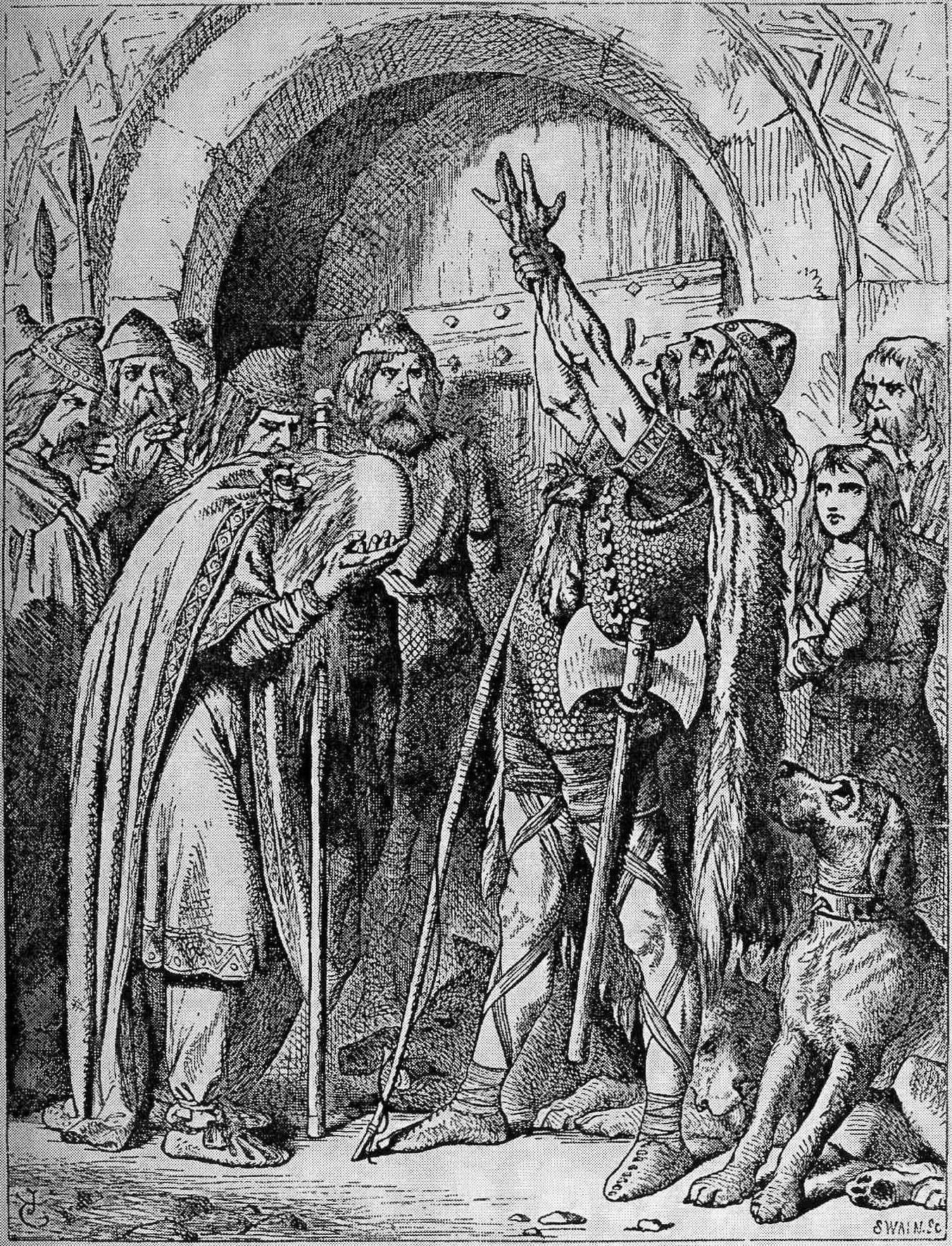 Noménoë, Victorian book illustration